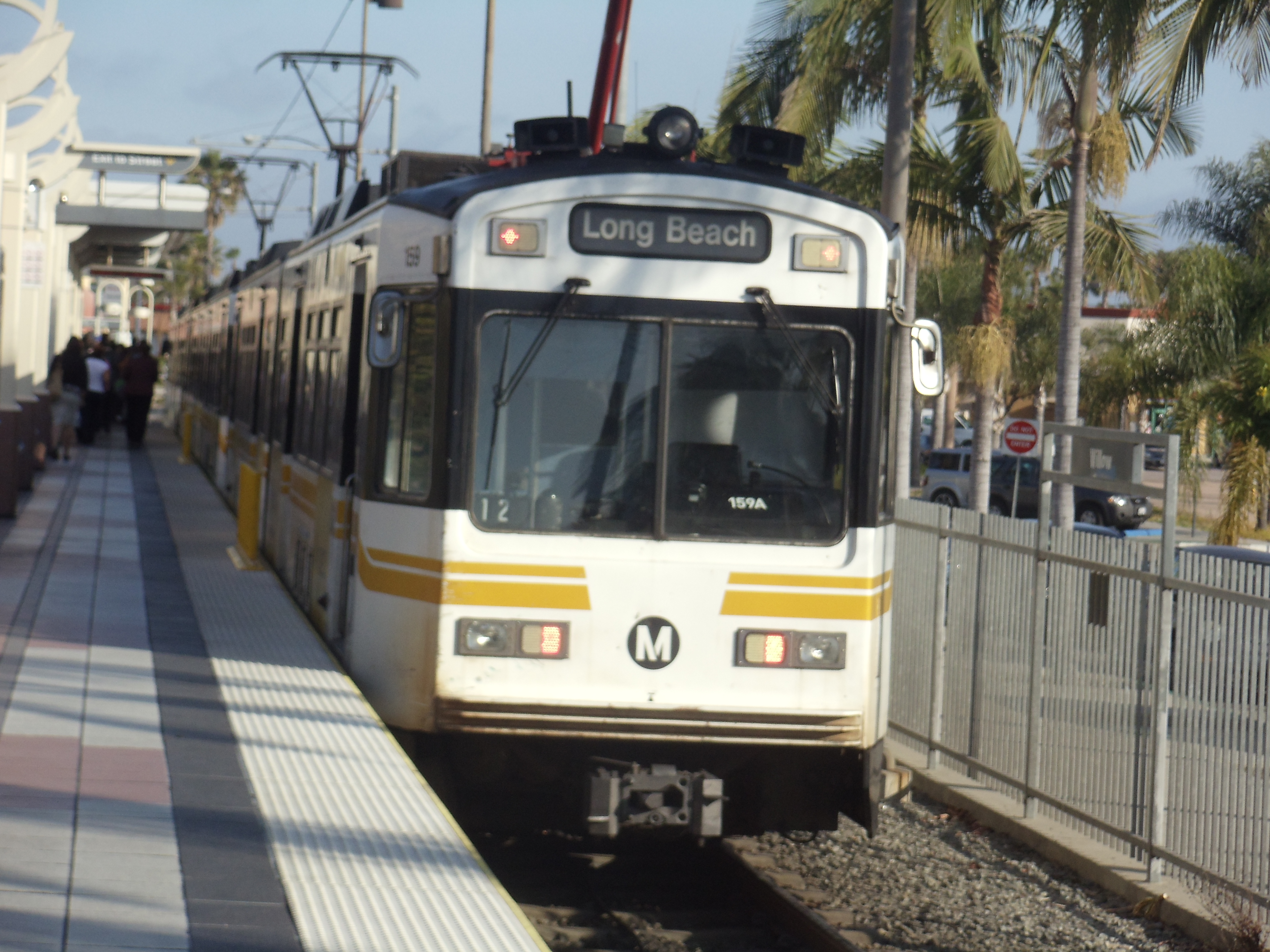 Metro Blue Line train departing Willow Station.